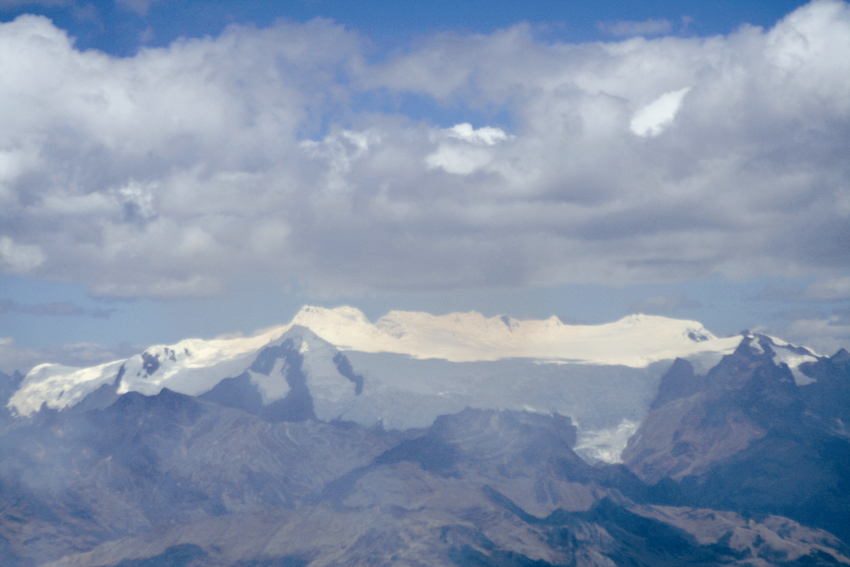 The snowy Perlilla is the only snow in the area of its outstanding Conchucos 5 km suitable for tournaments Ski and Snowboard